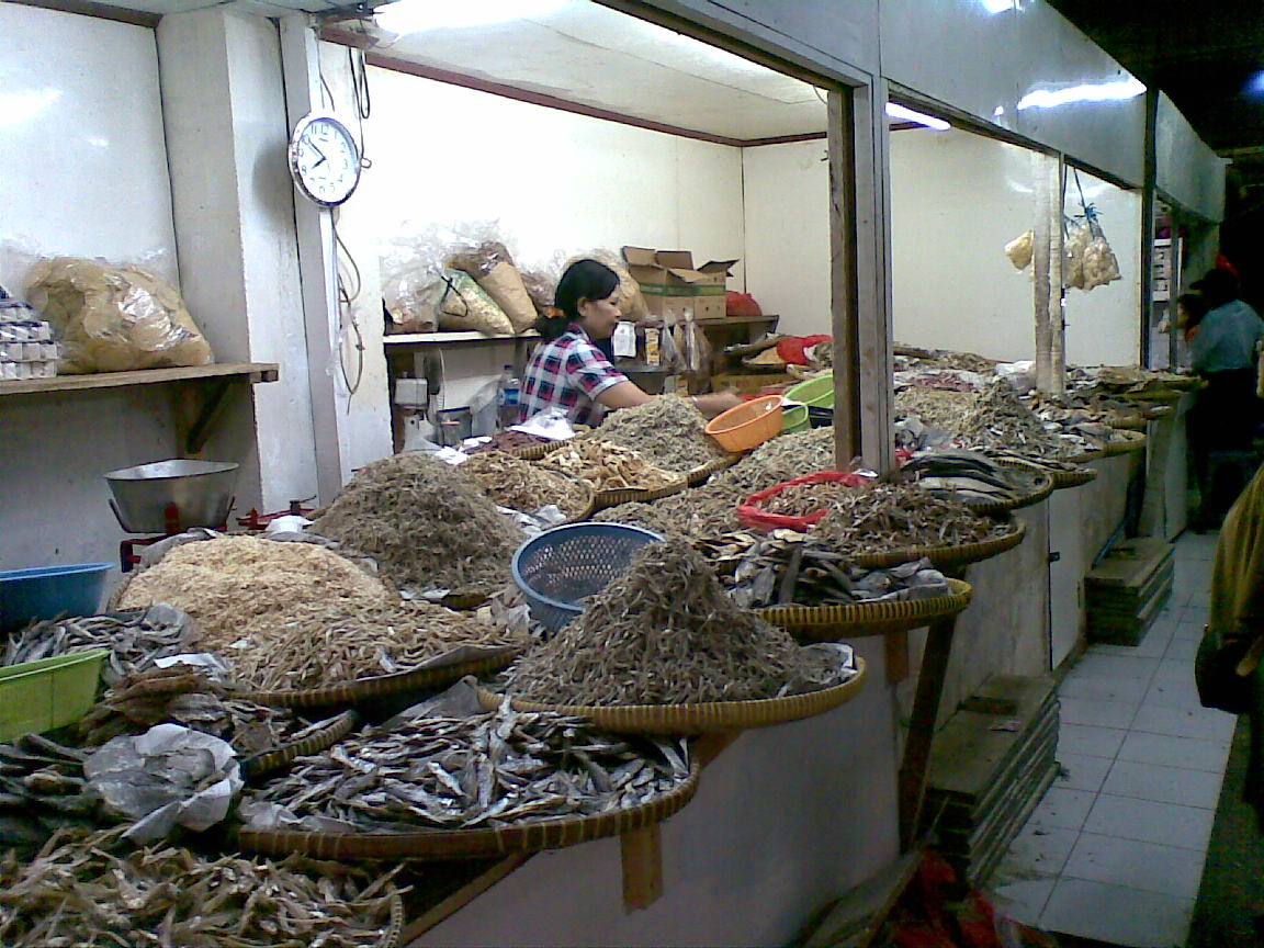 This is an "Ikan Asin" station from the Pasar Perumnas Klender, Jakarta Timur.